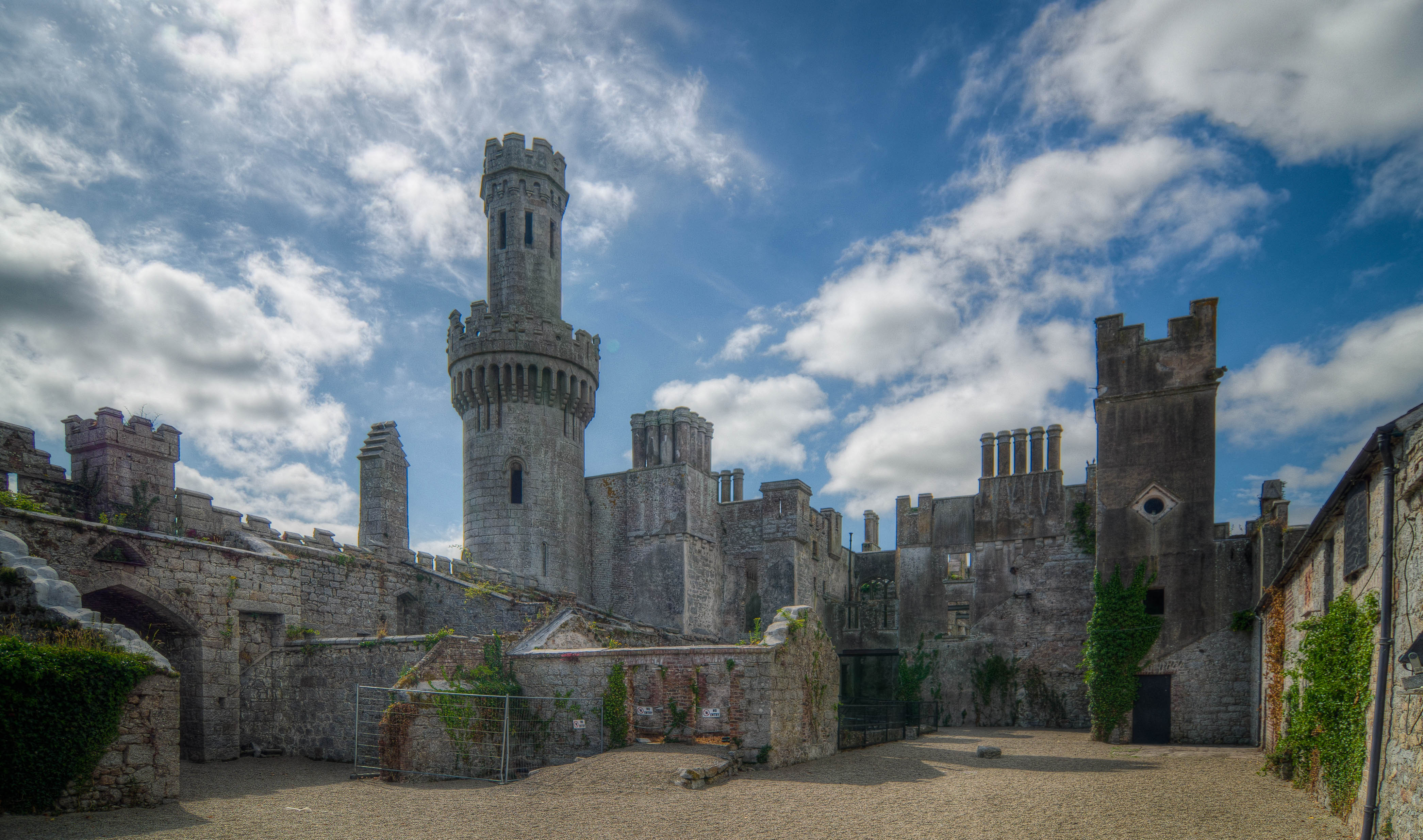 The central courtyard of Duckett's Grove, showing the tower, its most distinctive feature.